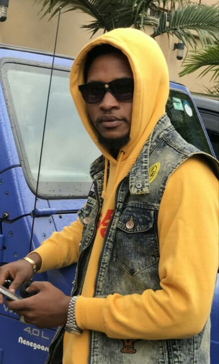 Congolese Artist Cor Akim in Bukavu